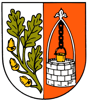 Coat of Arms of Bischbrunn